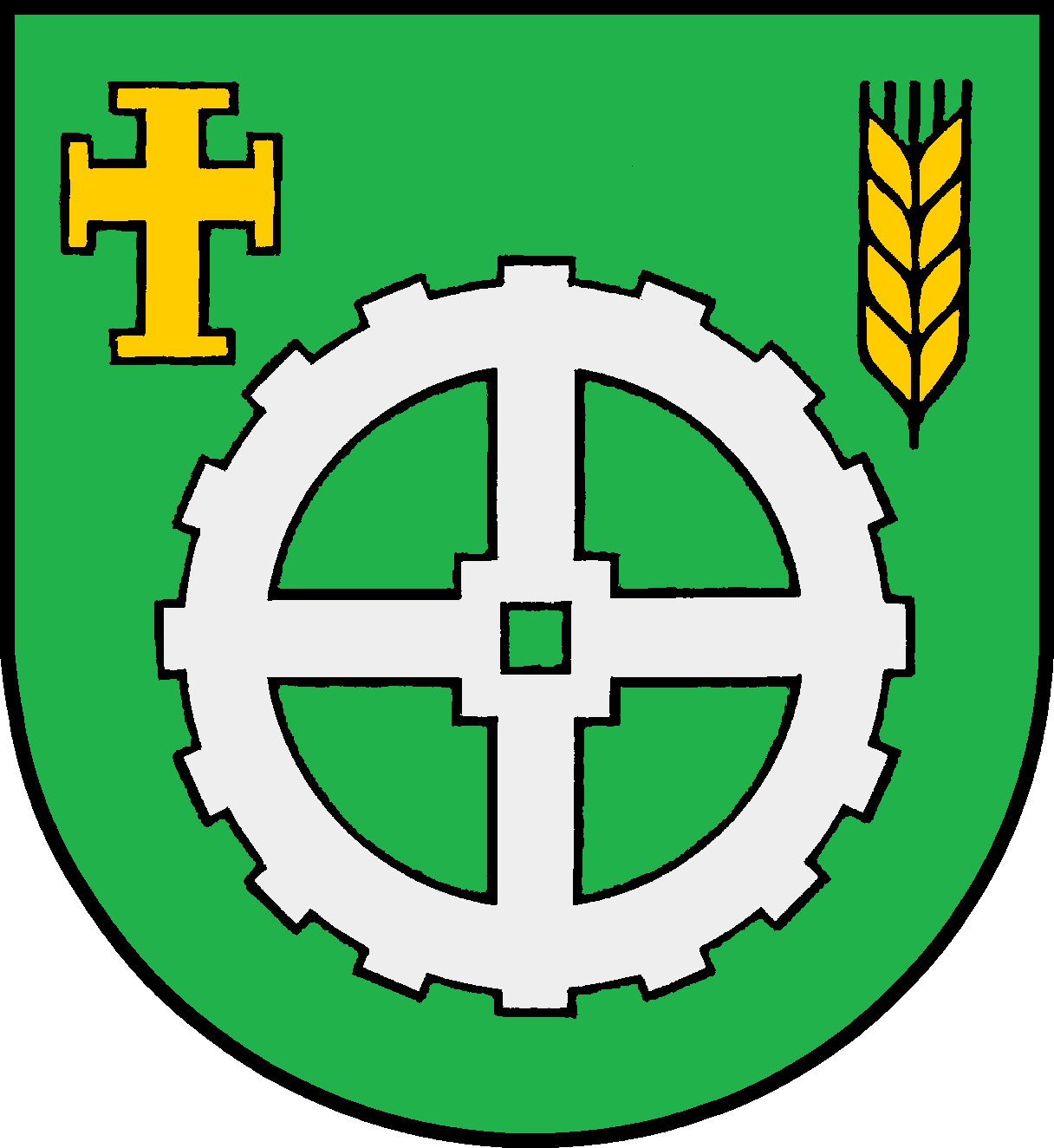 Coat of arms of the municipality Lutterbek in Schleswig-Holstein, Germany.